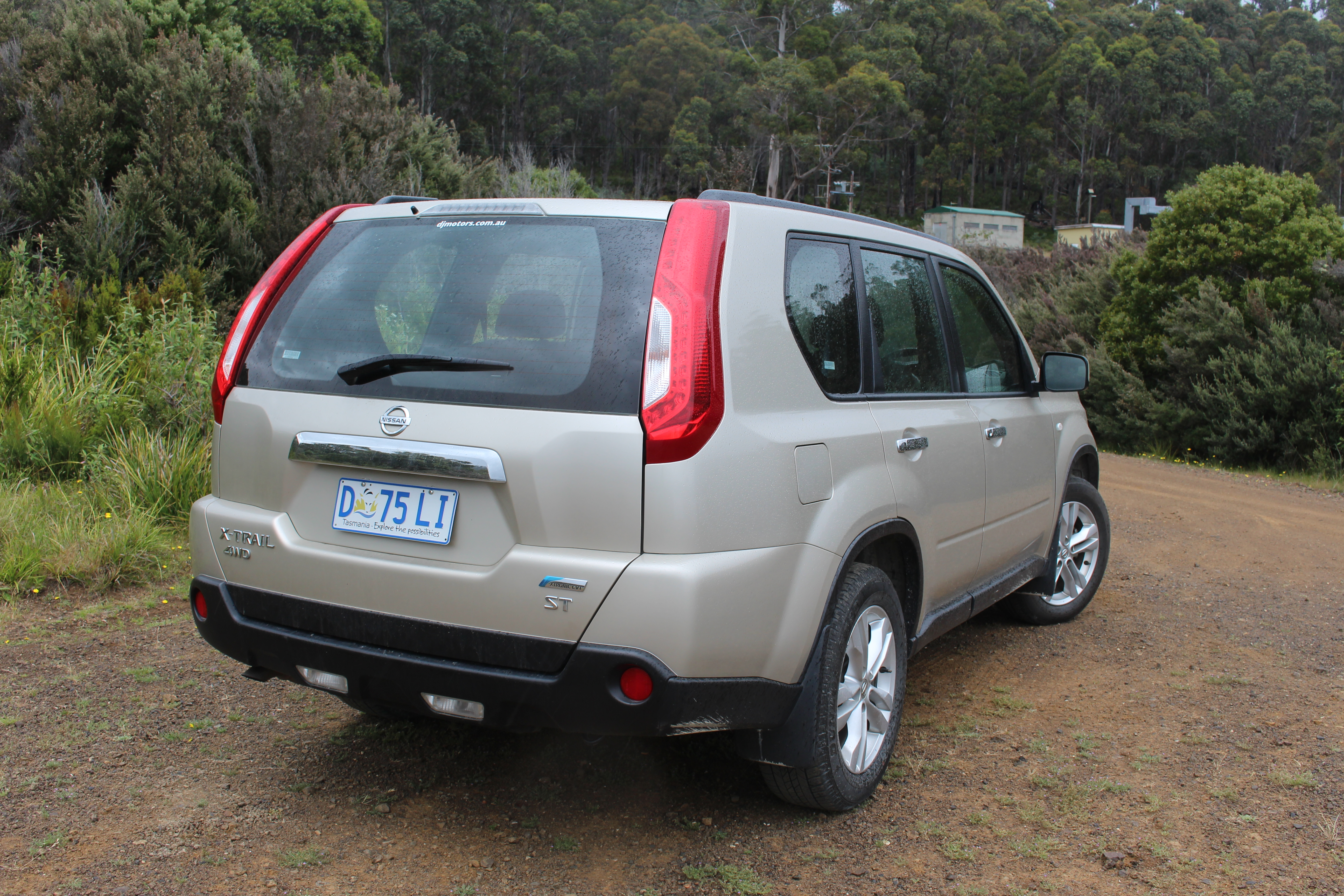 2013 Nissan X-Trail (T31) ST wagon. Photographed in Tarraleah, Tasmania, Australia. Vehicle registration enquiry results Jurisdiction Tasmania Registration D75LI Engine code 664714B Year of manufacture 2013